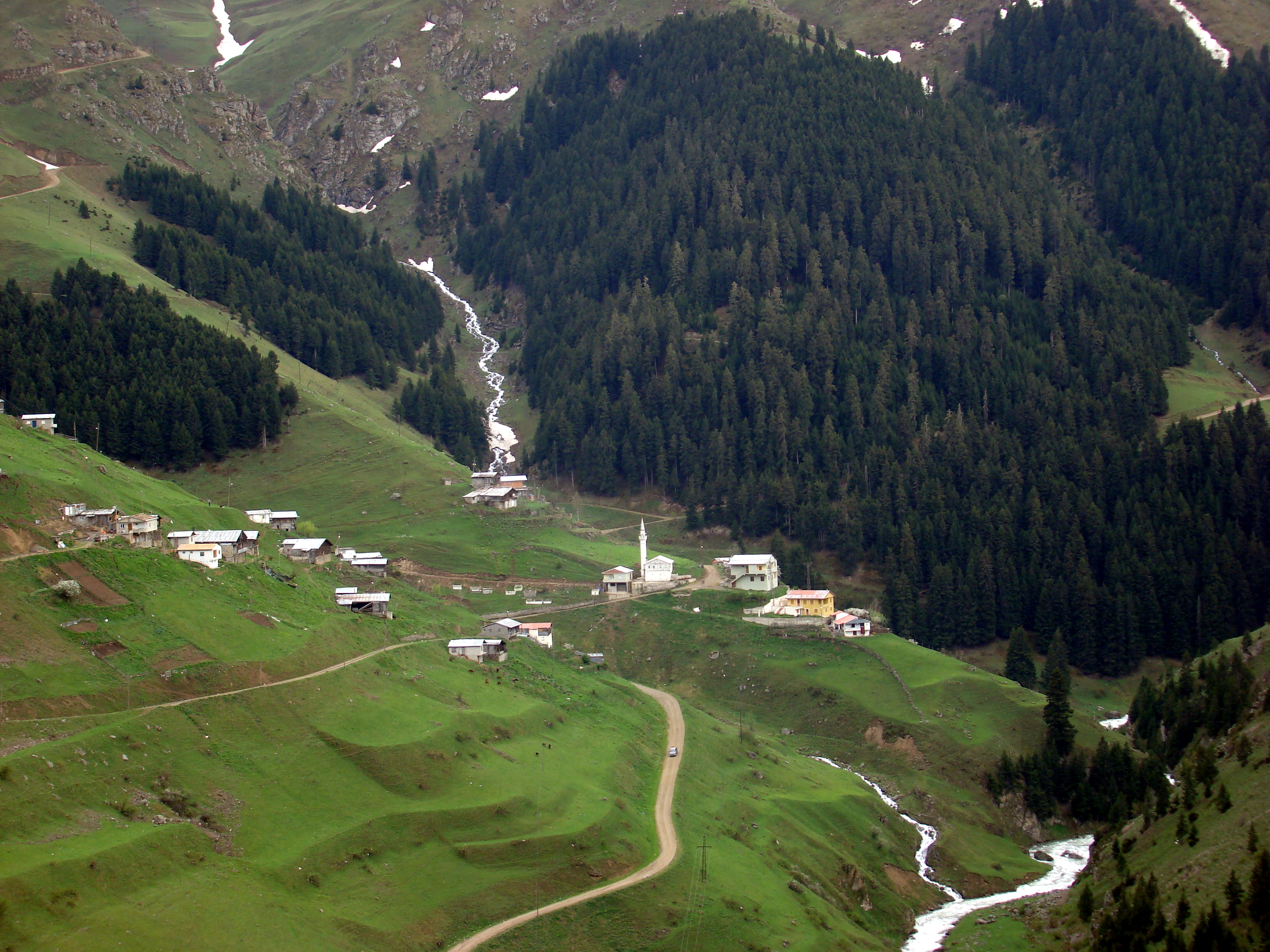 Anzer plateau (aka, Ballıköy plateau), is one of the uplands in the Blacksea region of Turkey. It has some peaks reaching an altitude of 3,000 m. The "Anzer honey", famous with its curative powers, is produced here. A small village is seen in the middle of the picture.